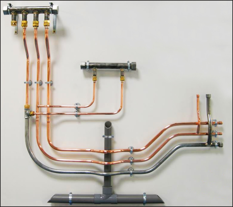 Plumbing work for Best French's Apprentice.